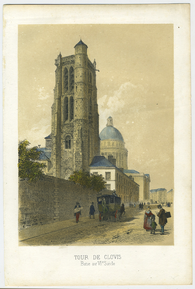 Lithography of the Tour de Clovis created around 1850